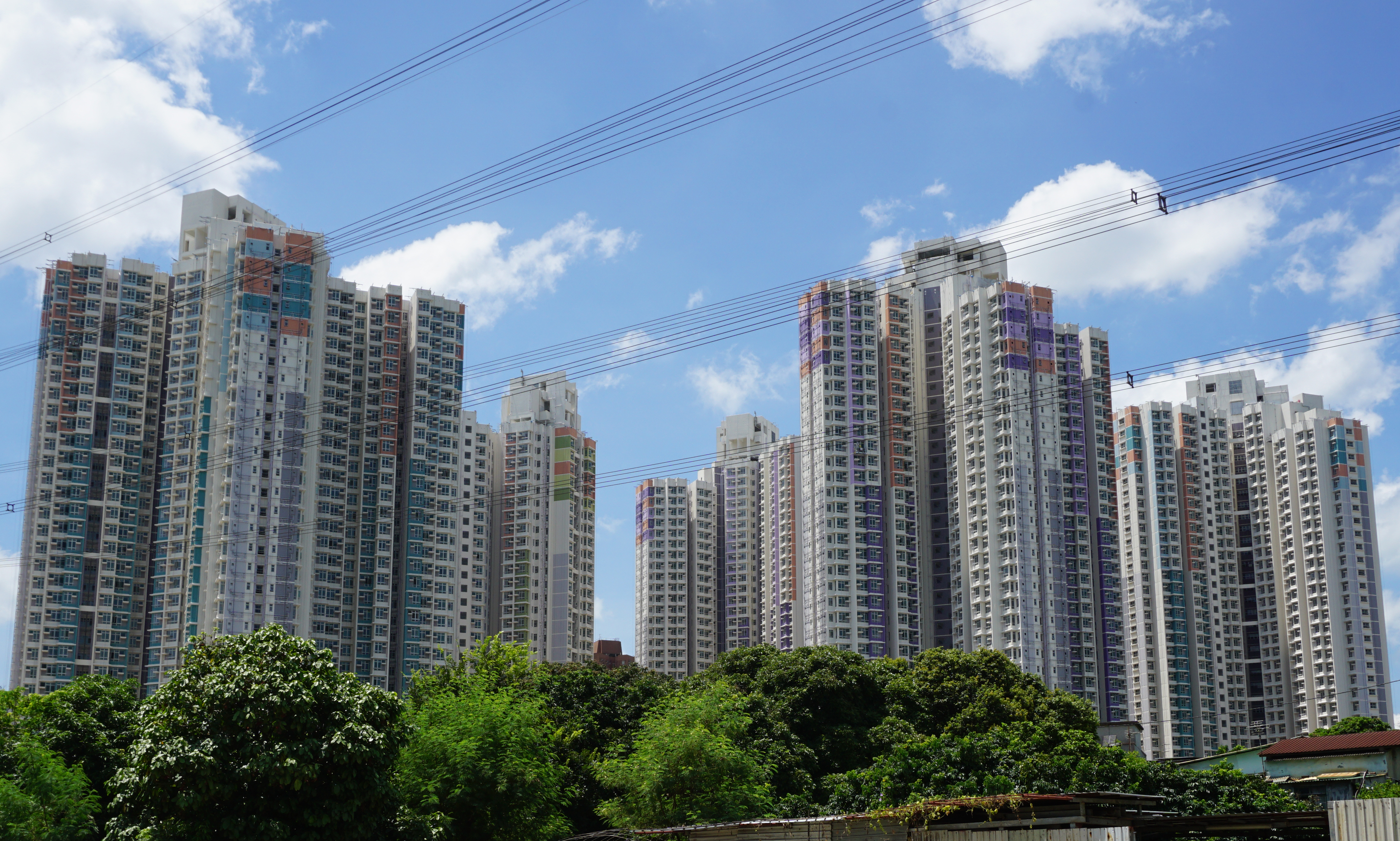 Yan Tin Estate in Tuen Mun, Hong Kong.